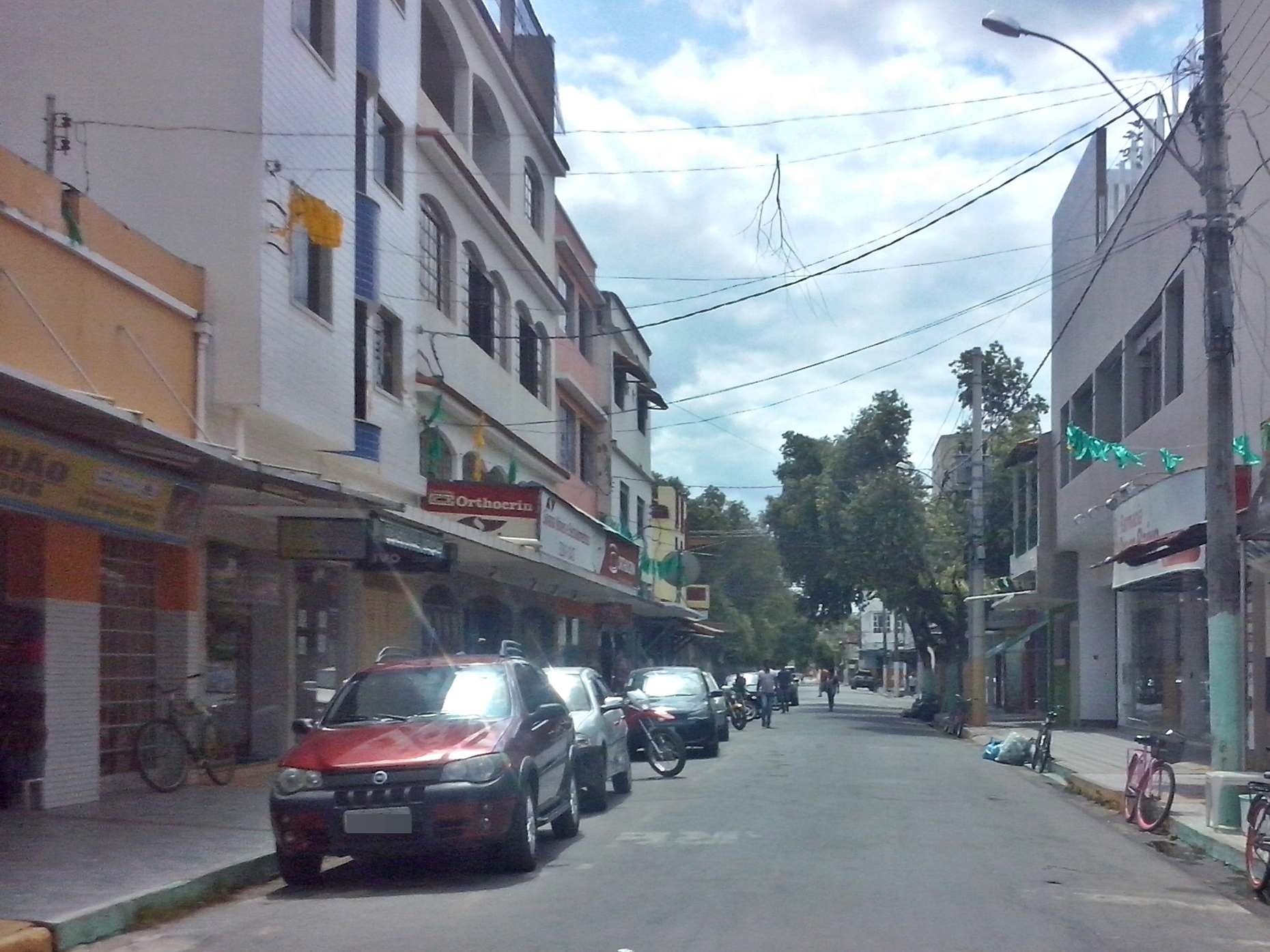 Cesário de Barros Street, in Conselheiro Pena, Minas Gerais, Brazil.